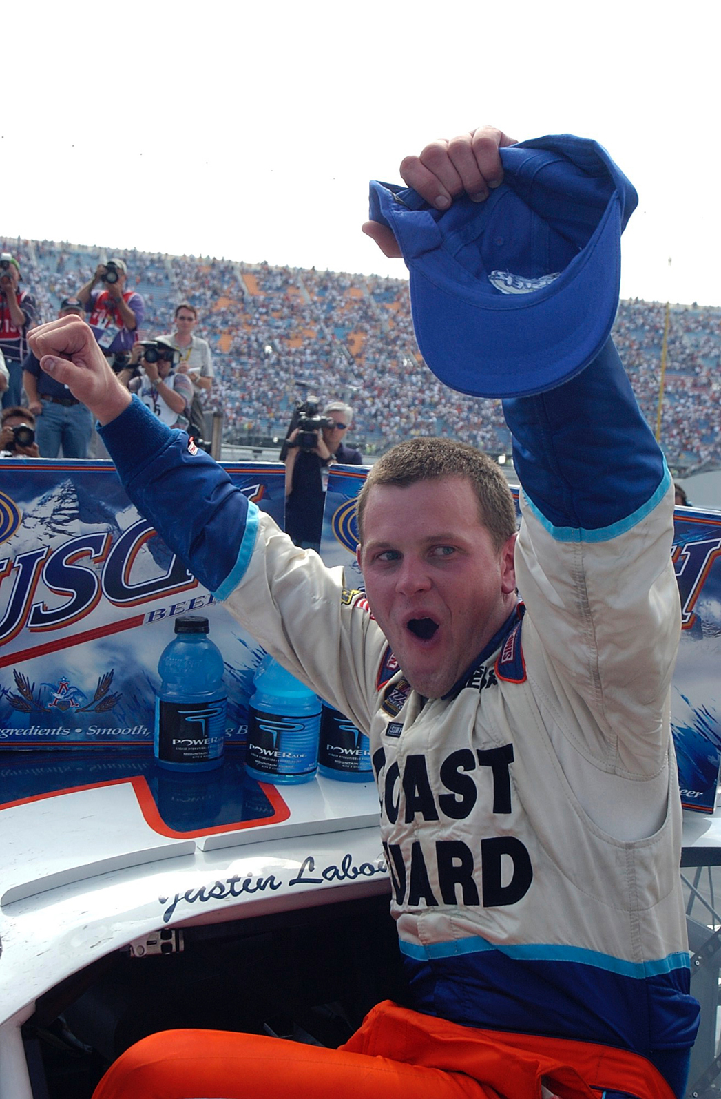 Justin Labonte wins the 2004 Tropicana Twister 300